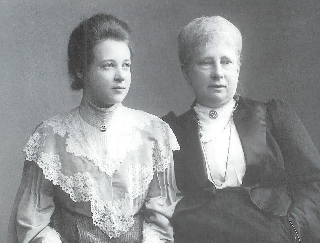 Marie Alexandrine looks stately in a dark suit while young Sophie (left) wears a dress with charming lace collars reminiscent of the 1630s.